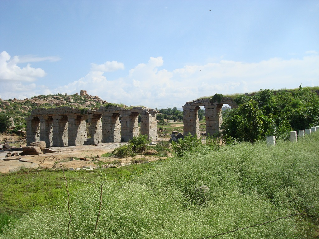 On the way to Kishkindha, An aqueduct